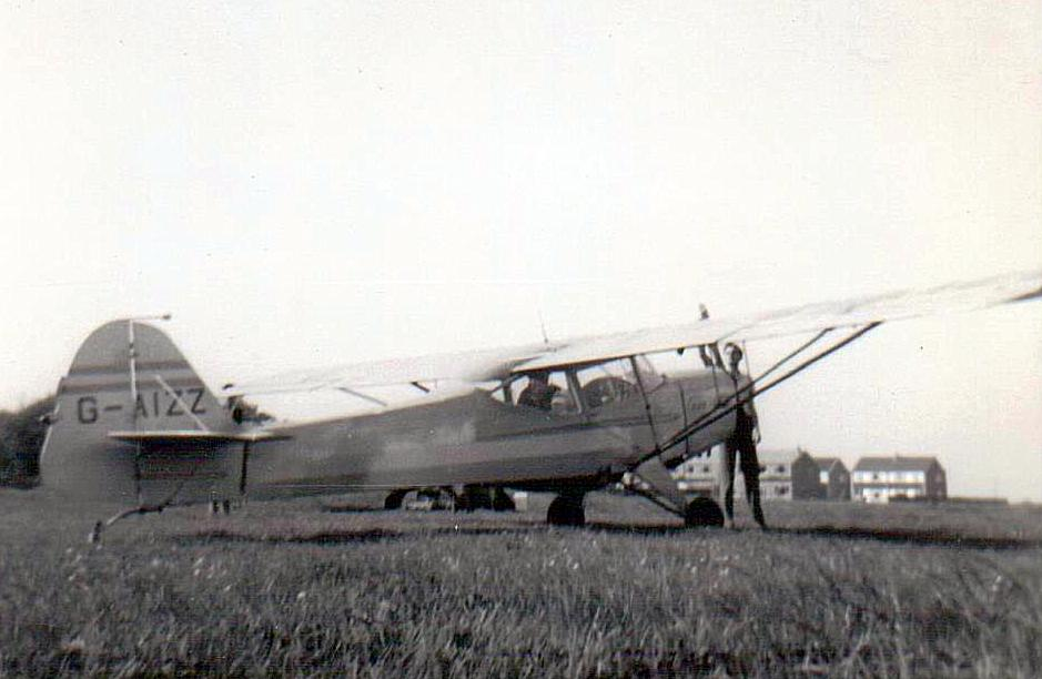 Auster 5/J1 G-AIZZ at Ramsgate Airport. The person at the front is swinging the propeller to start the engine.